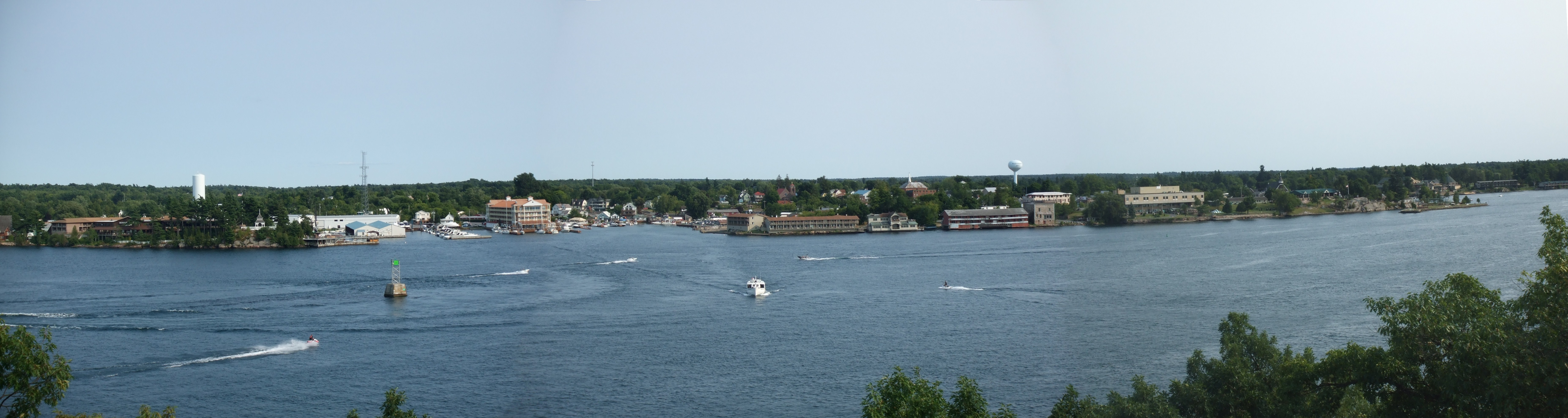 Alexandria Bay.